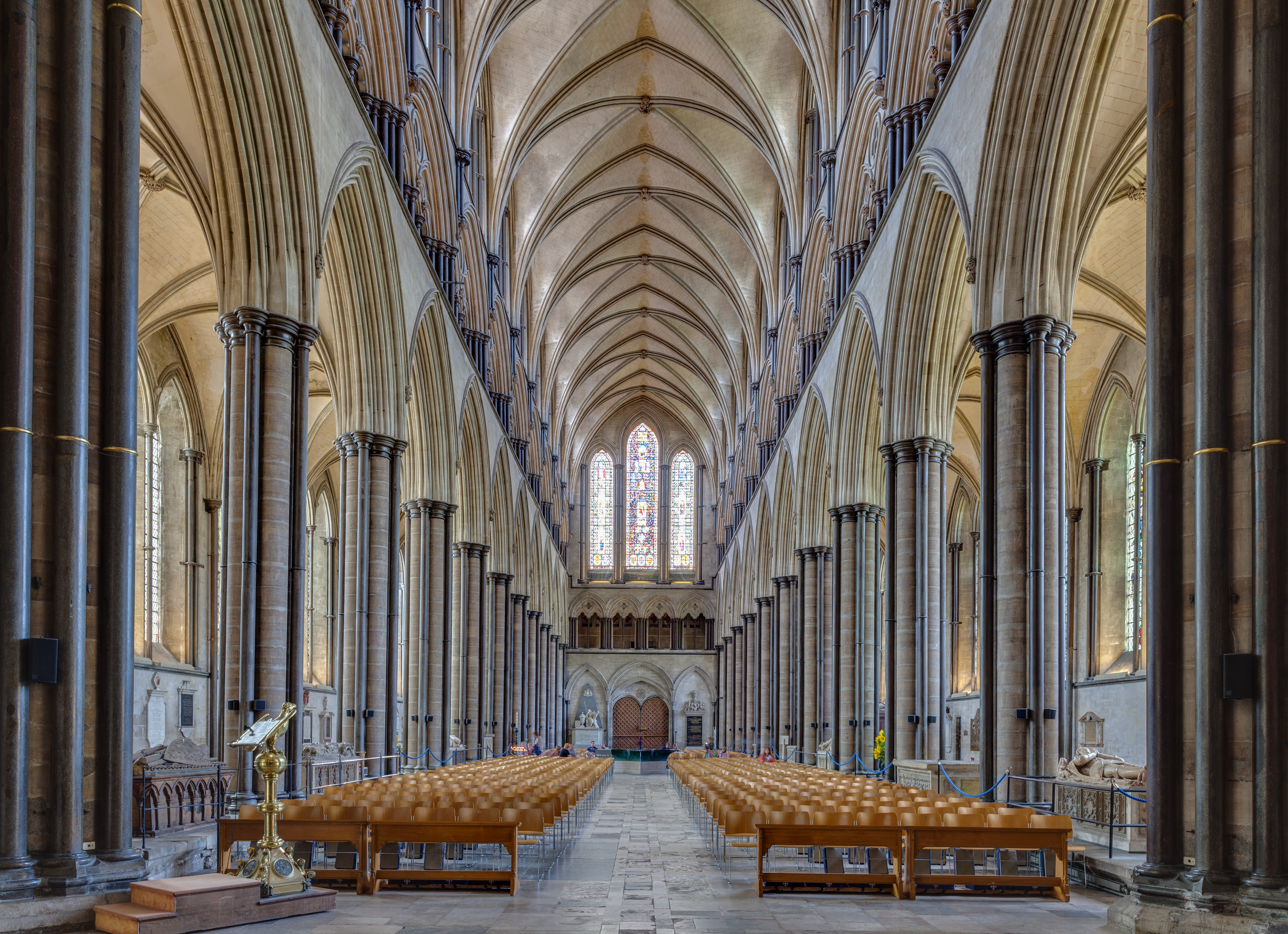 Salisbury Cathedral, Salisbury, England